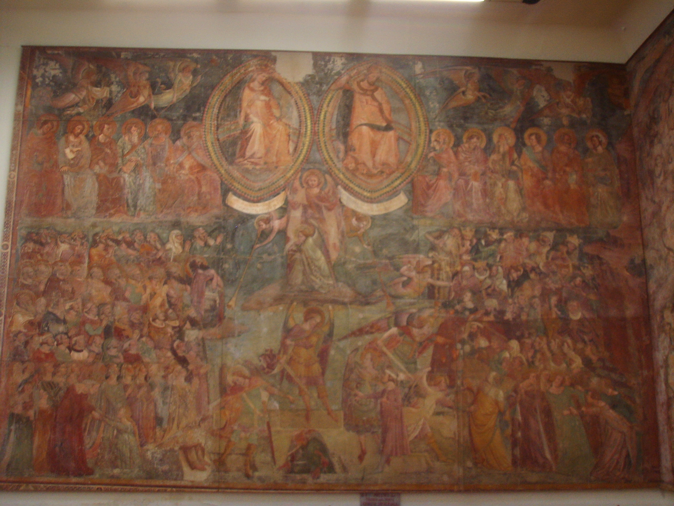 Bonamico di Martino da Firenze known as Buffalmacco: Giudizio Universale e Inferno, fresco 1336-1341, left section: Last Judgement.